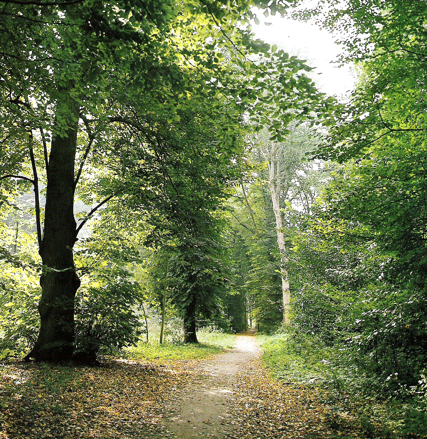 photo of Haarlemmerhout, oldest public park in the Netherlands. Since the middle ages open to the public, it wasn't designed as a park for recreational use until 1756, when the landscape designer Jan van Vorel introduced the French garden system of straight lines and star-shaped woods, still to be found in the lines of the park today.